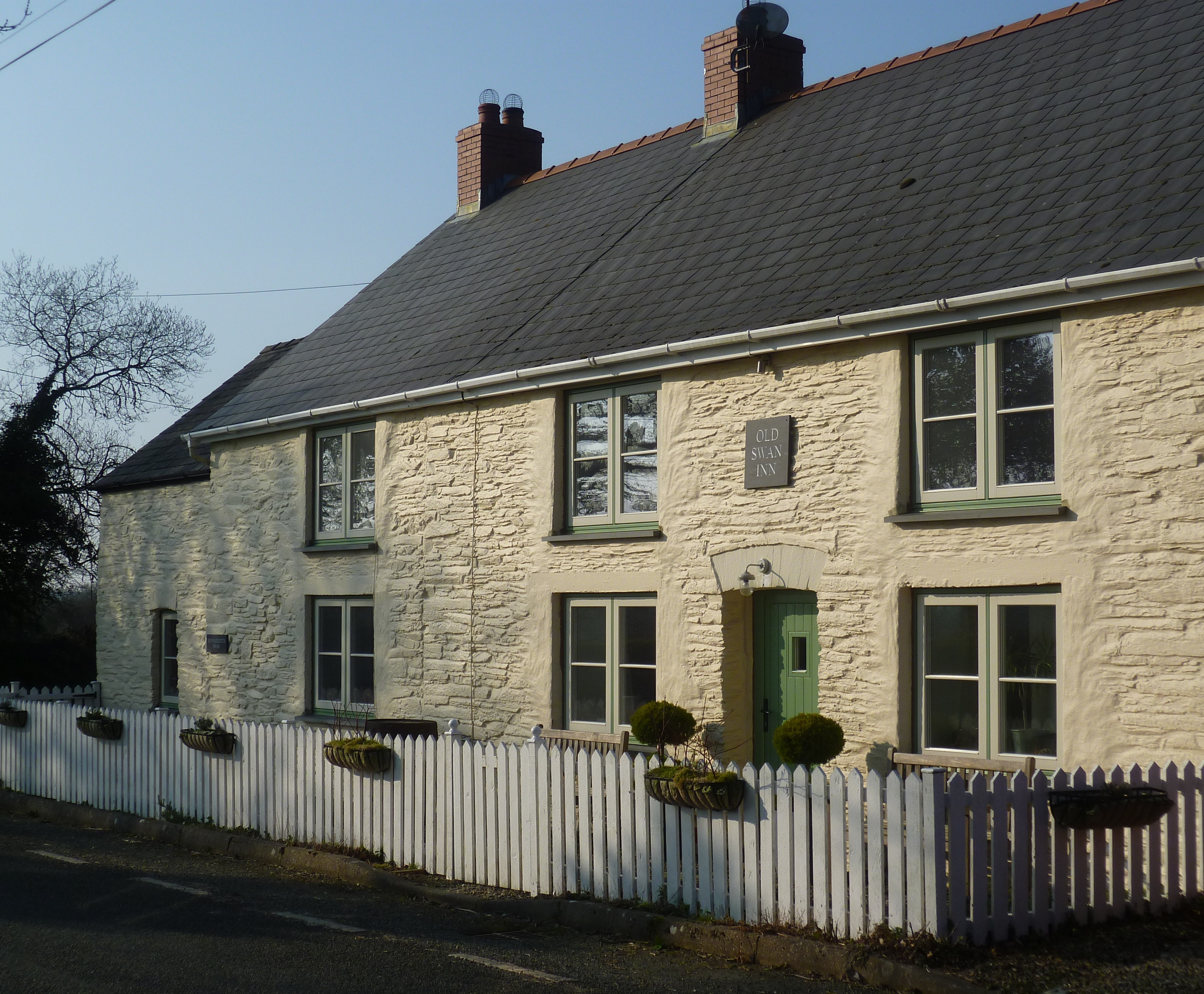 The Old Swan Inn, Eglwyswen, Pembrokeshire, now a private residence